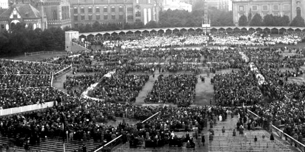 Latvia. Riga. VII Latvian Song Celebration. 1931.